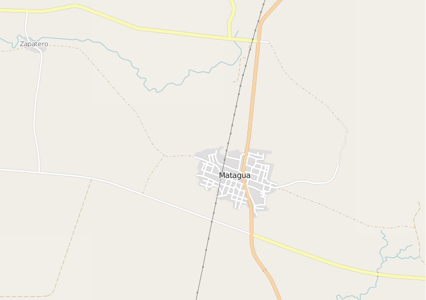 This map may be incomplete, and may contain errors. Don't rely solely on it for navigation.